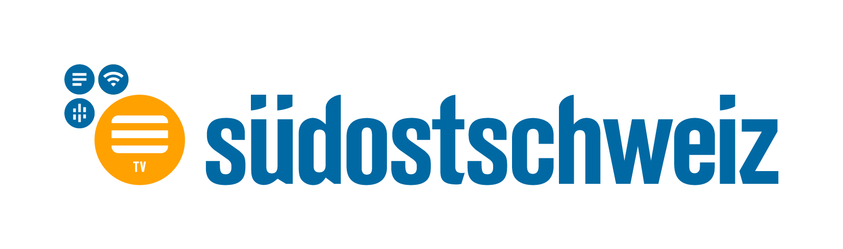 Logo TV Südostschweiz